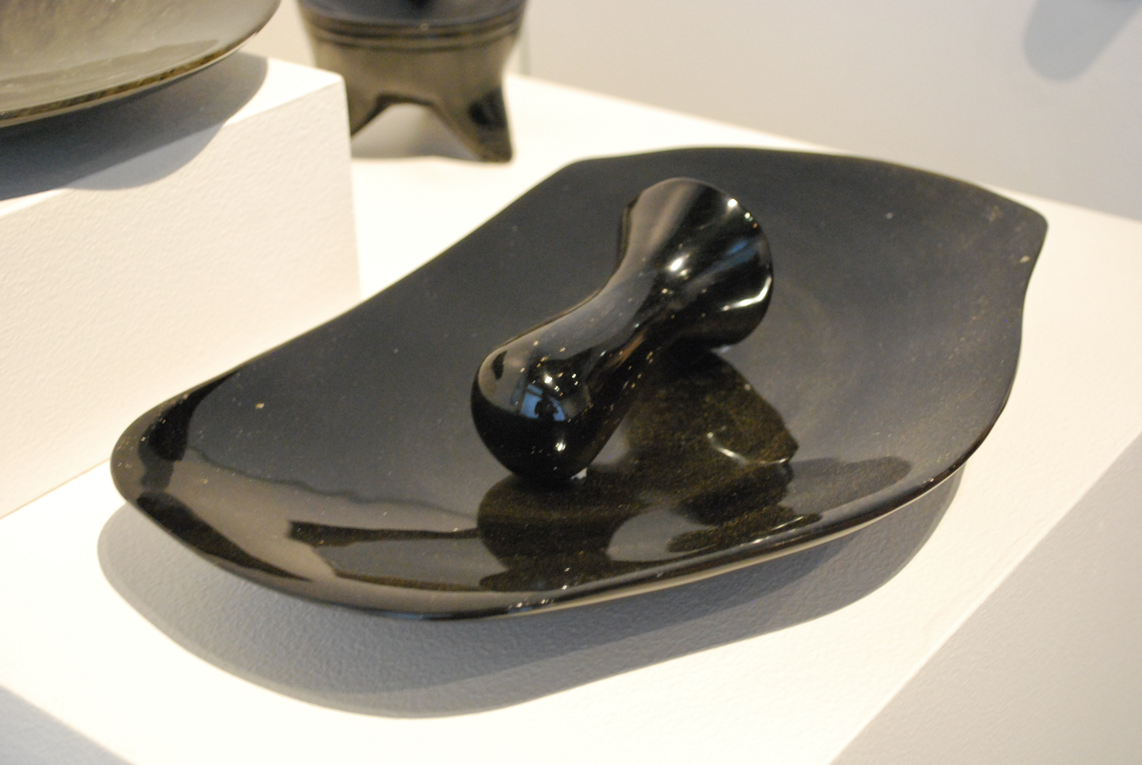 Obsidian plate and pestle by Victor Lopez Pelcastre of Nopalillo, Hidalgo for the “Hidalgo, Rituales, Usos y Creaciones” exhibit at the Museo de Arte Popular, Mexico City